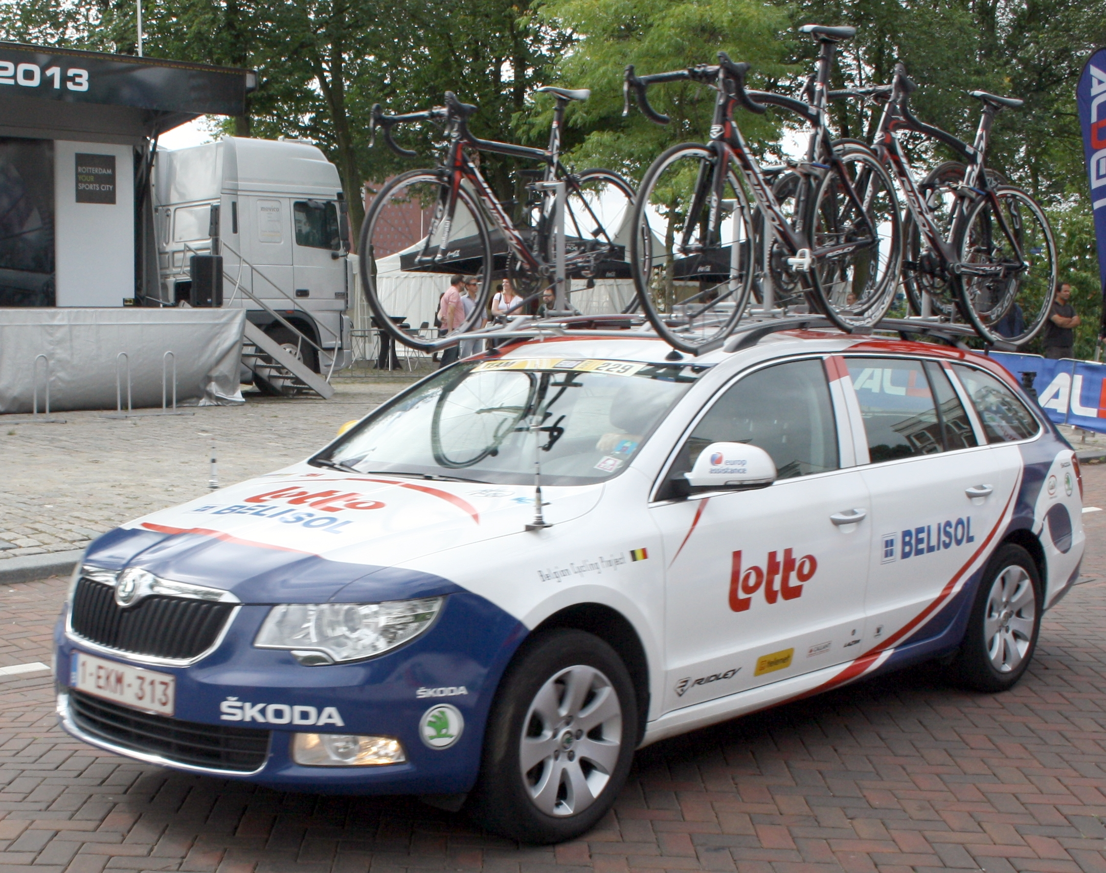 Lotto-Belisol team car before the start of stage 2 of the World Ports Classic 2013